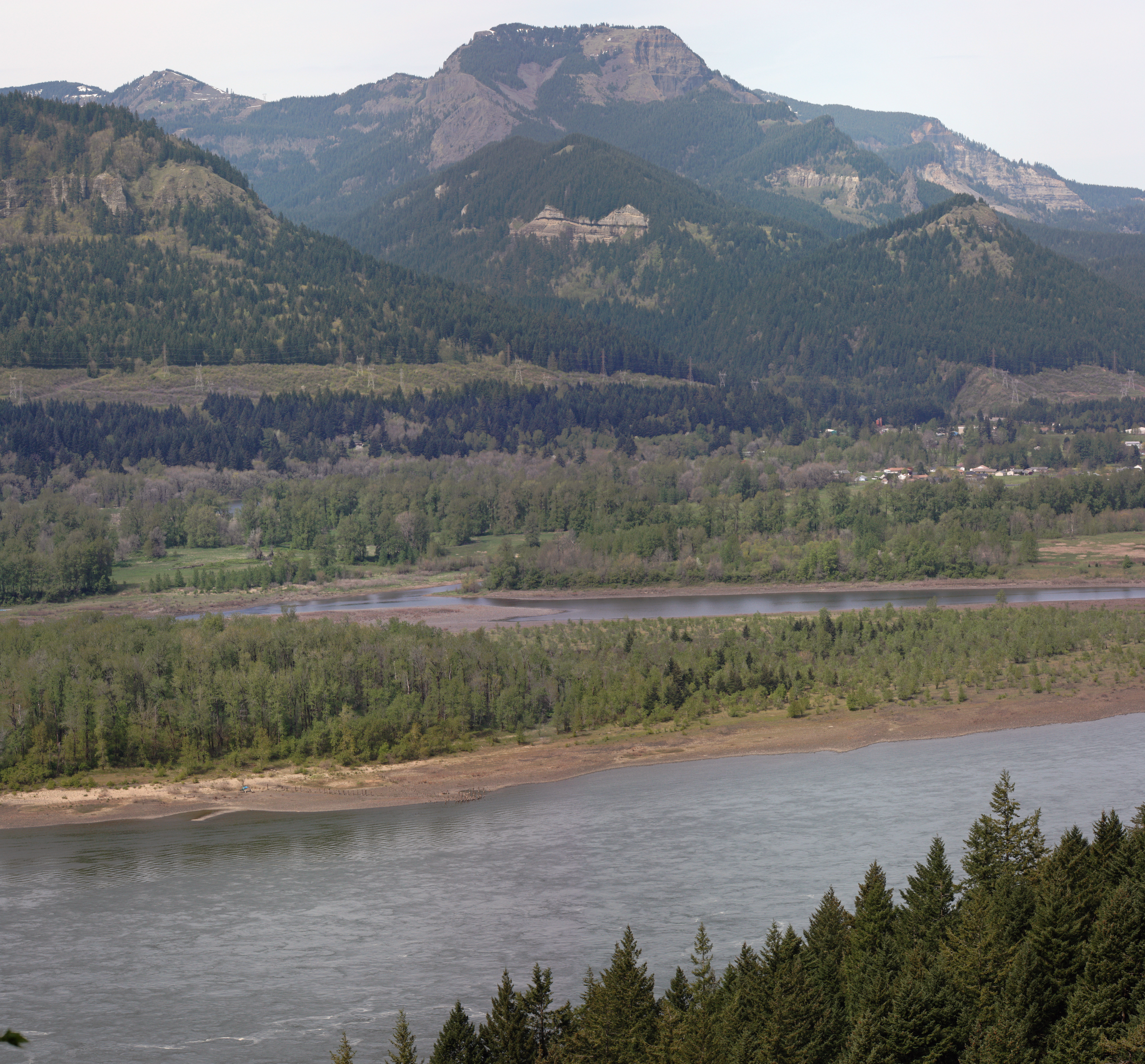 Table Mountain (Skamania County, Washington) (3417 ft, 1042 m; center skyline); Hamilton Mountain (2438 feet, in Beacon Rock State Park, left skyline); Ives Island in the Columbia River; Aldrich Butte (1141 feet) immediately above the buildings of North Bonneville; stitched panorama from other versions This image was created with Hugin